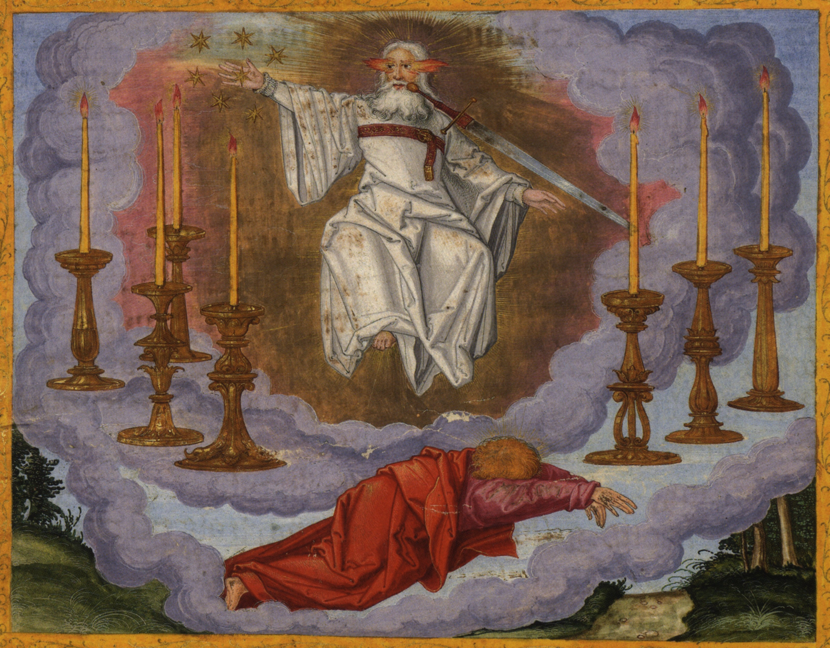 Page 284v: The Vision of the Seven Candlesticks, Revelation 1:12-20